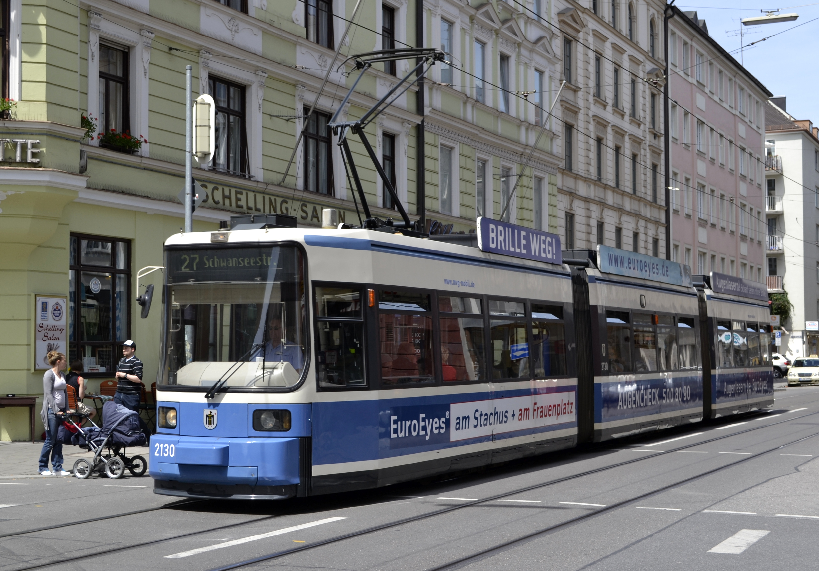 Munich tram 2130, of type R2.2, in service on route 27, bound for Schwanseestrasse.